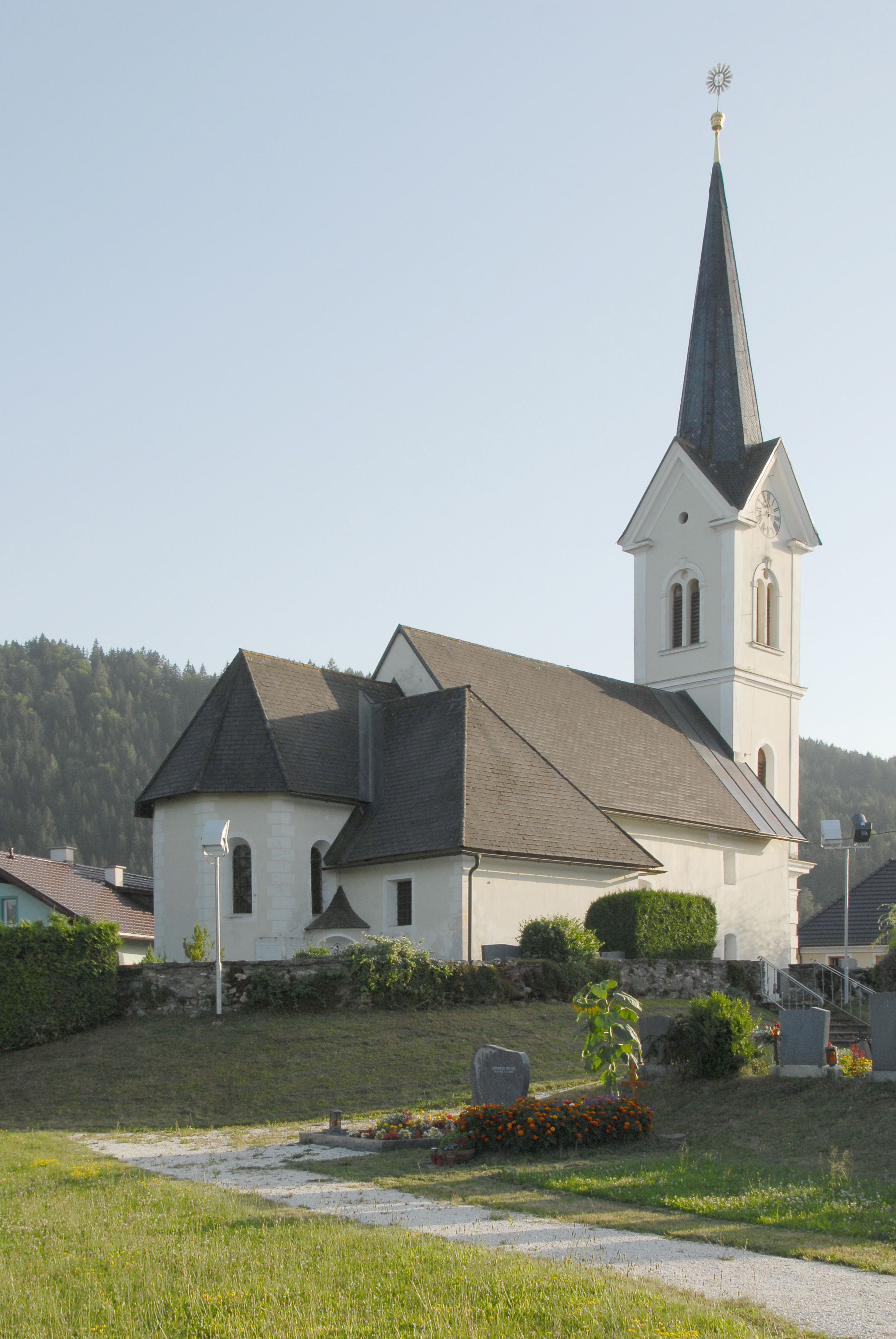 Parish church Saint Radegund at Radweg, municipality Feldkirchen in Kärnten, district Feldkirchen, Carinthia, Austria, EU